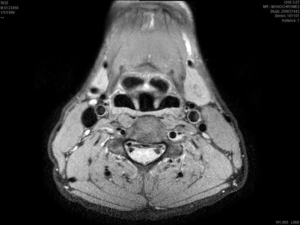 A (not so good) view of the larynx, scanned by myself using an Achieva Philips 3T MRI system. The image is a Proton Density weighted, using the scanner's own PDW BB M2D CLEAR protocol. A medium sense flex coil was attached to the patient.